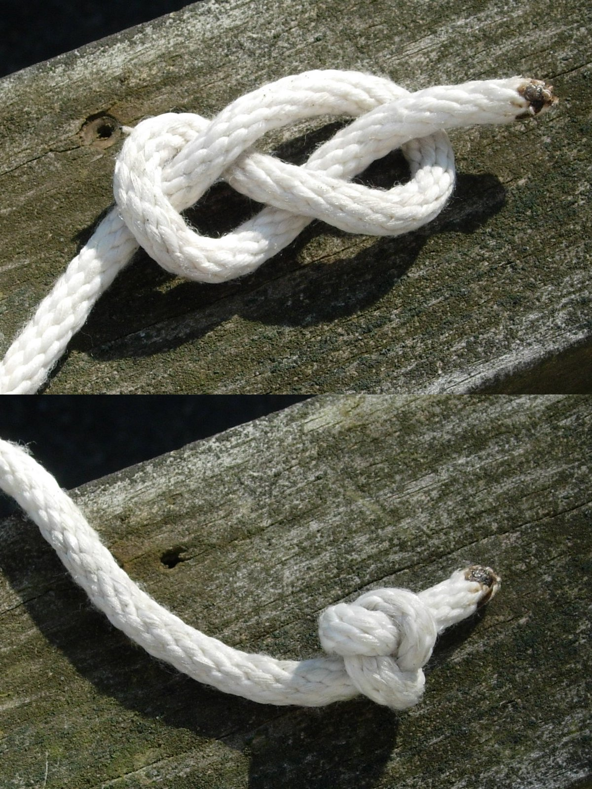 Figure eight knot, loose as tied, and tight as used